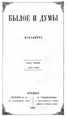 Title page of Hertzen's My Past and Thoughts, 1861 London edition